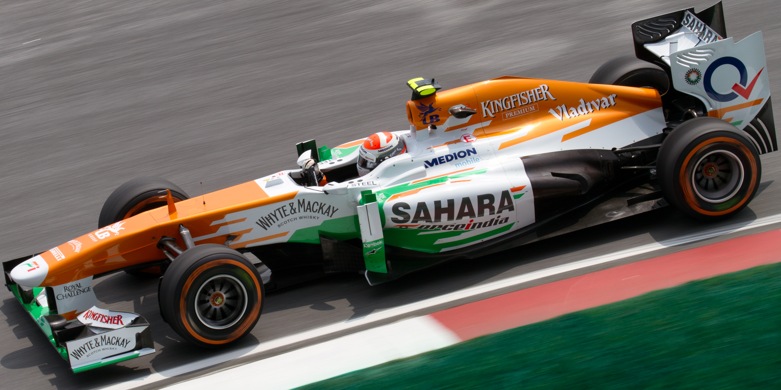 Formula One 2013 Rd.2 Malaysian GP: Adrian Sutil (Force India) during the first practice session on Friday.